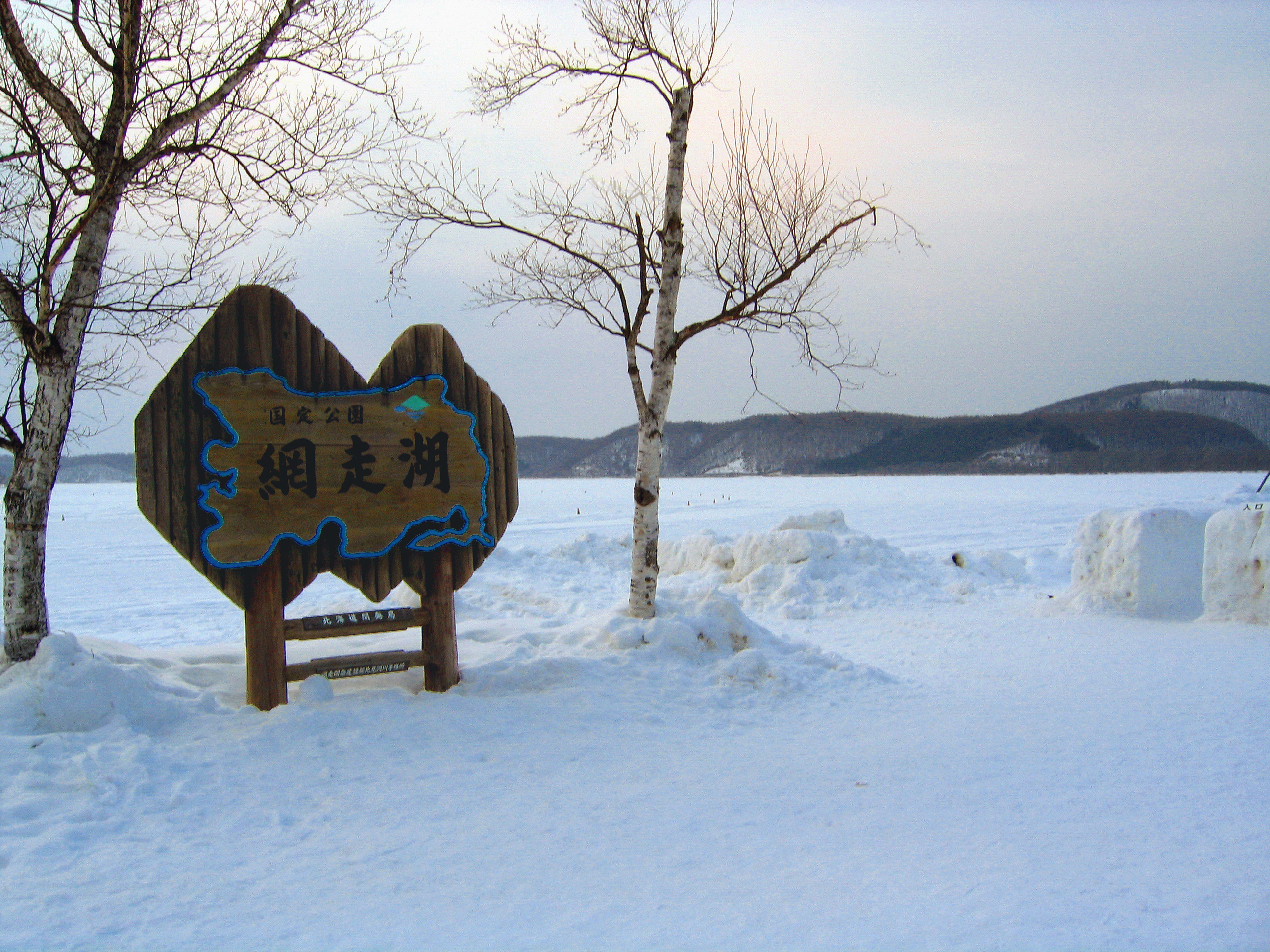 This photograph is the lake the "Abashiri lake" which carries out the whereabouts to Hokkaido in Japan, and Abashiri.